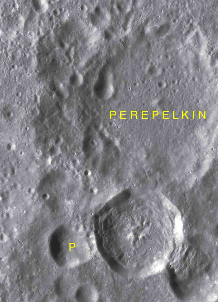 Part of the chart LAC-83 used for the presentation